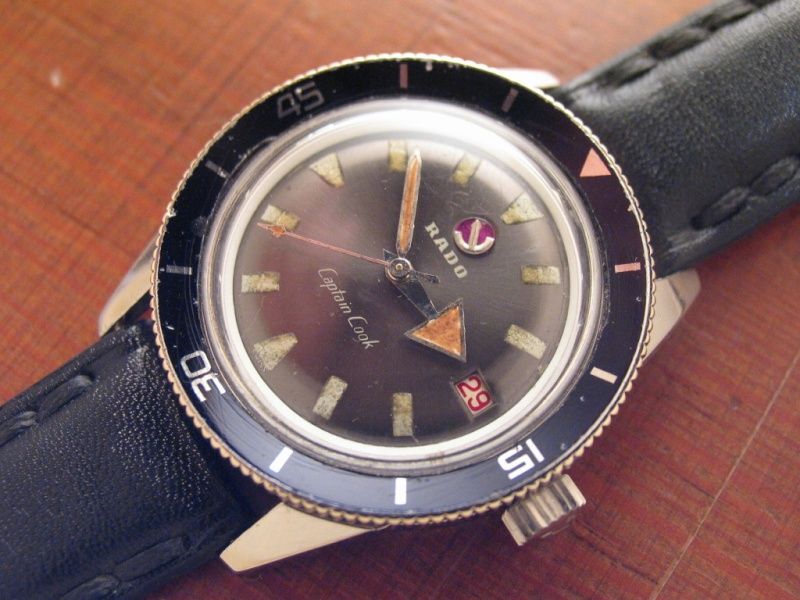 Rado Captain Cook MK1 1962 swiss watch